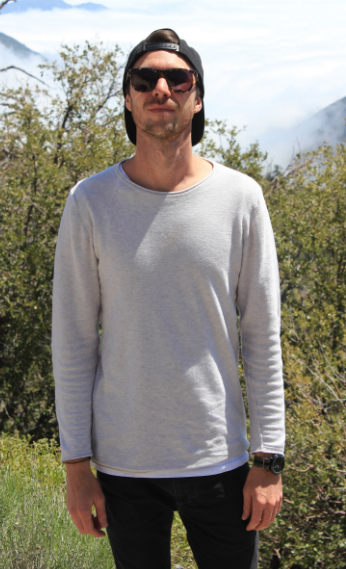 Kenny